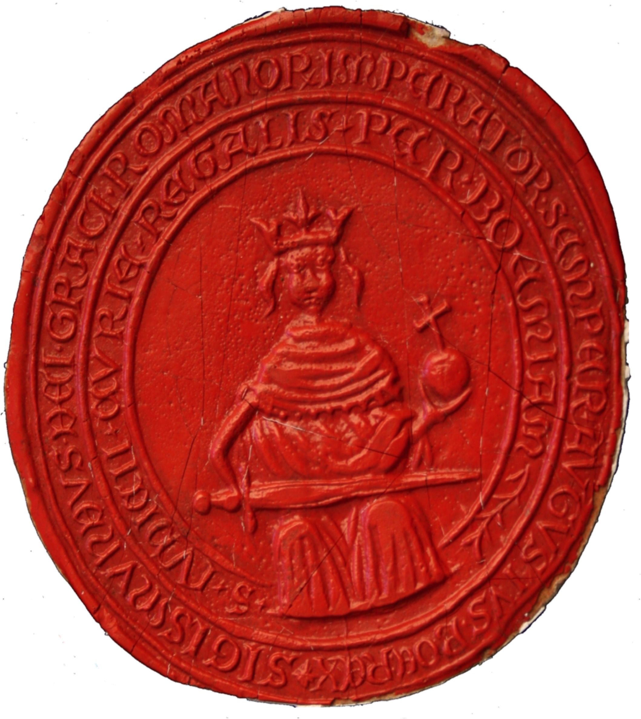 Sigismund of Luxemburg Official Sigelium, Holy Roman Emperor 1433 until 1437